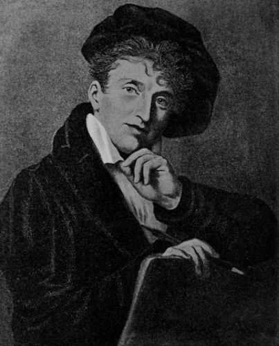 Portrait of the actor and painter Ludwig Geyer